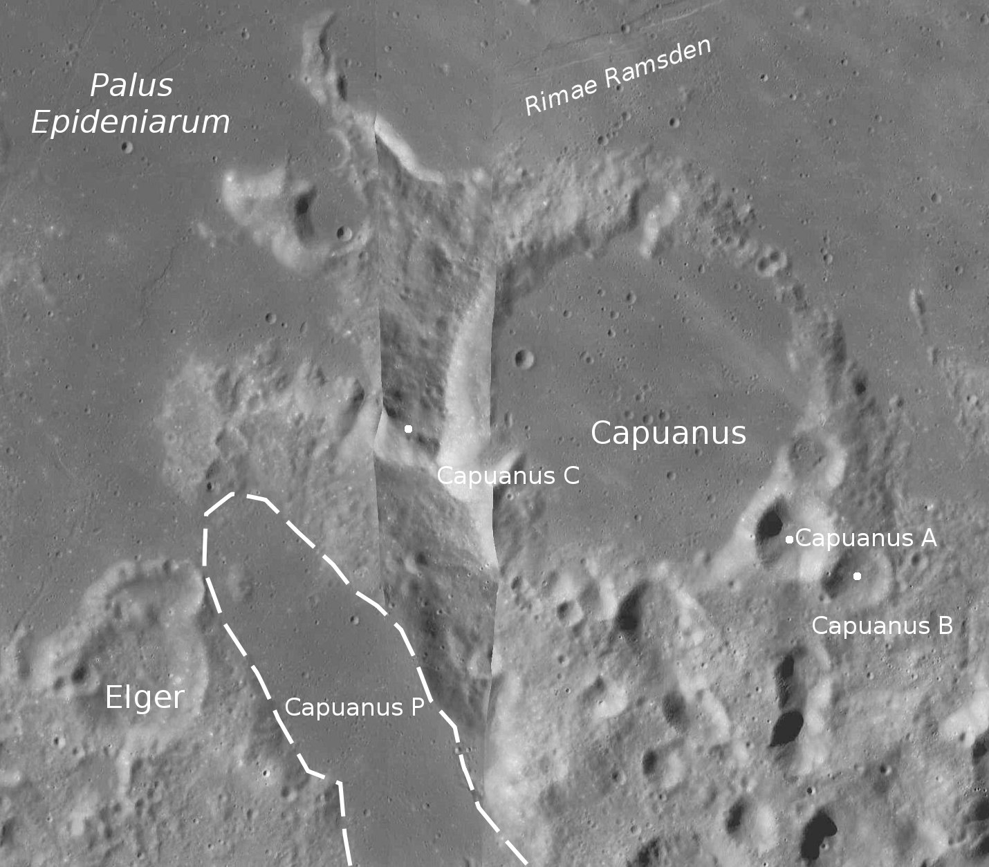 Craters Capuanus and Elger (detail of LRO - WAC global moon mosaic; Mercator projection)